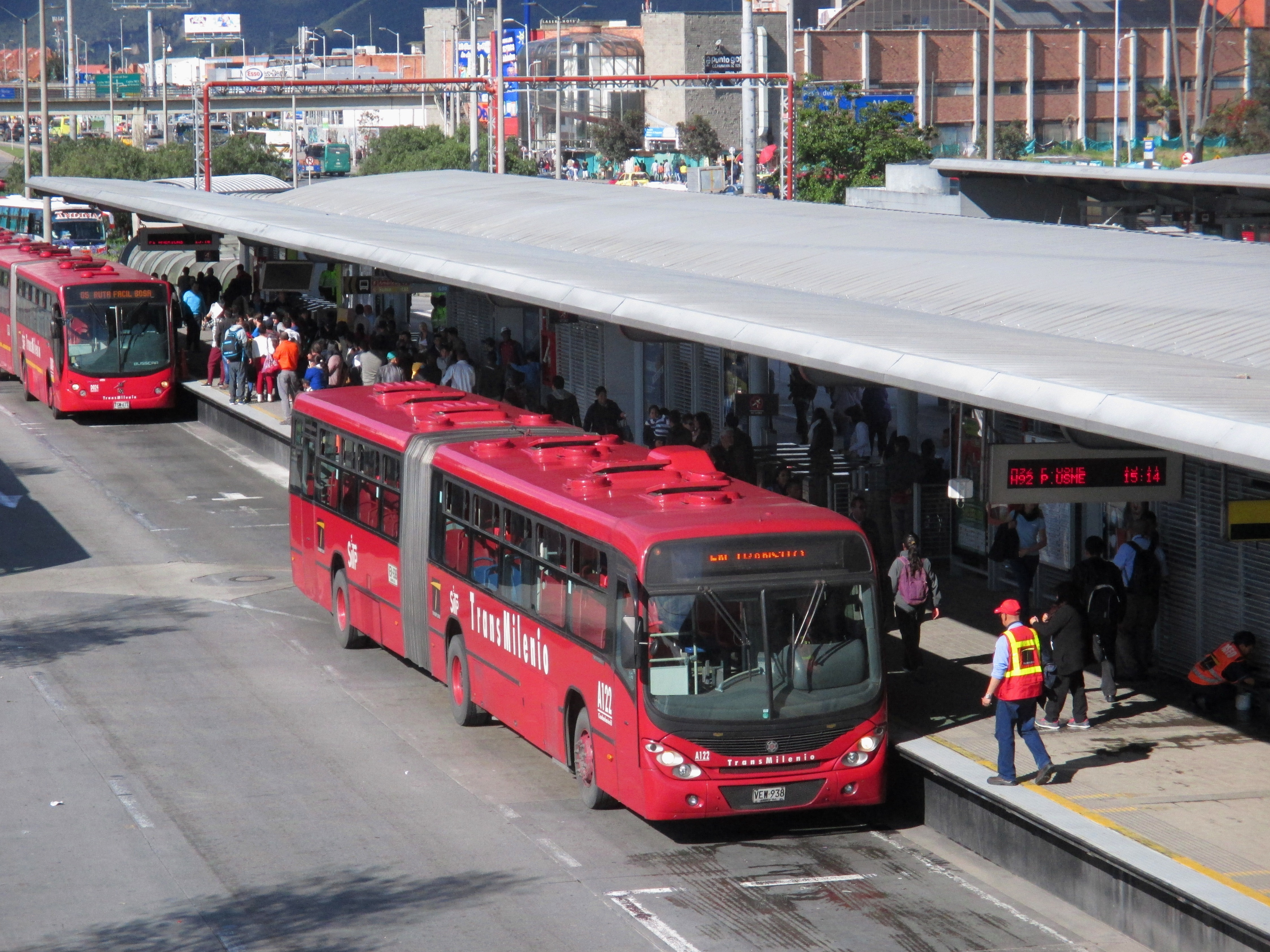 Bogotá